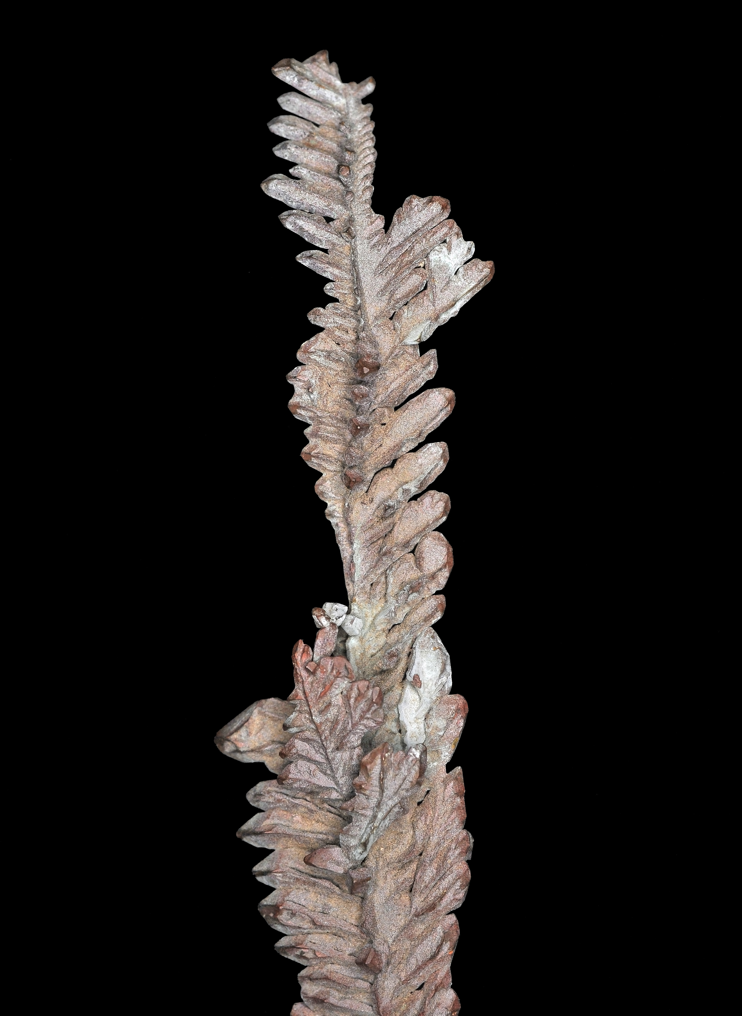 crystals of native copper : Broken Hill South Mine (BHS Mine ; South Mine), Broken Hill, Yancowinna Co., New South Wales, Australia